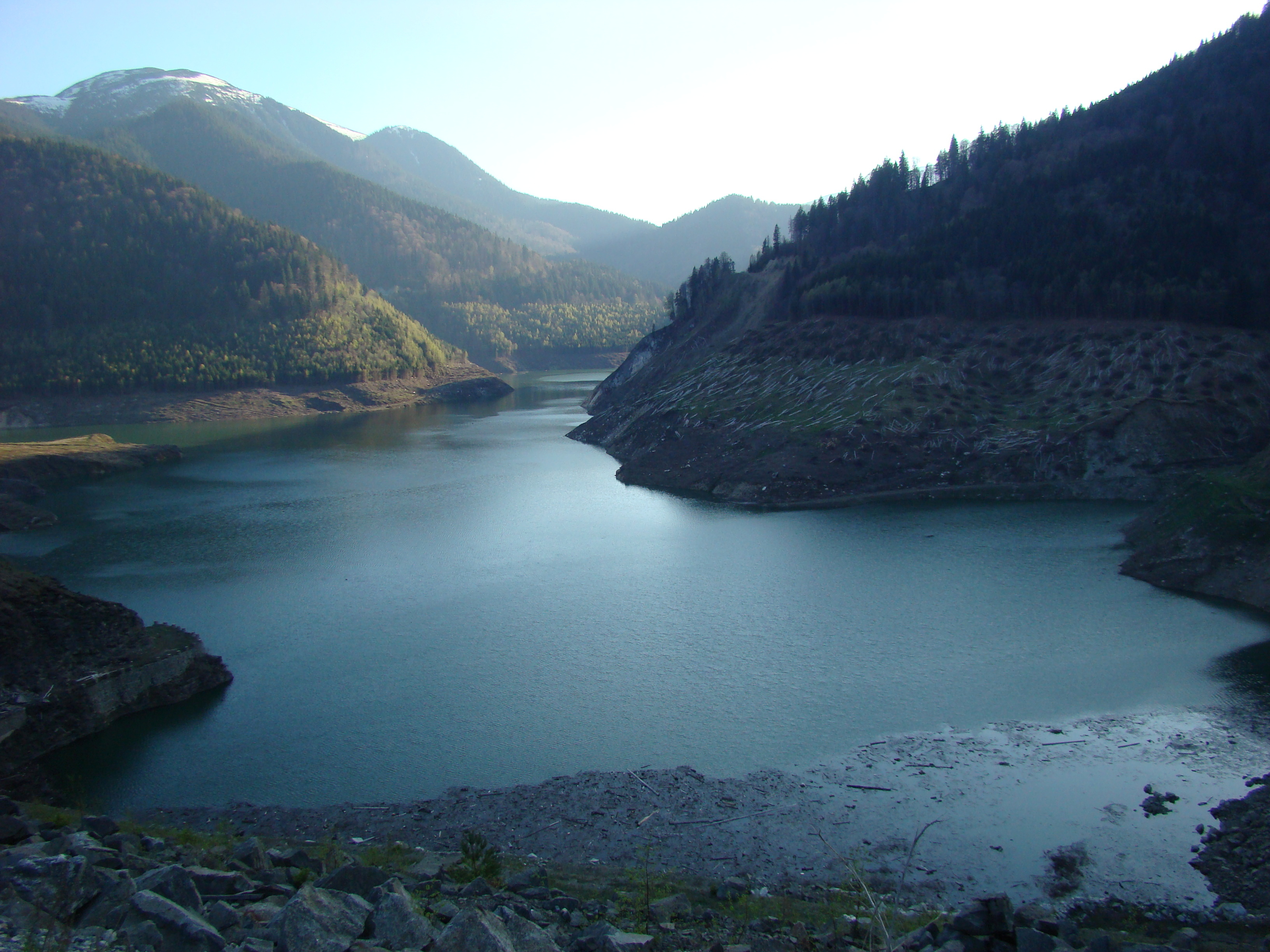 Gura Apelor dam and reservoir, Hunedoara counrty, Romania